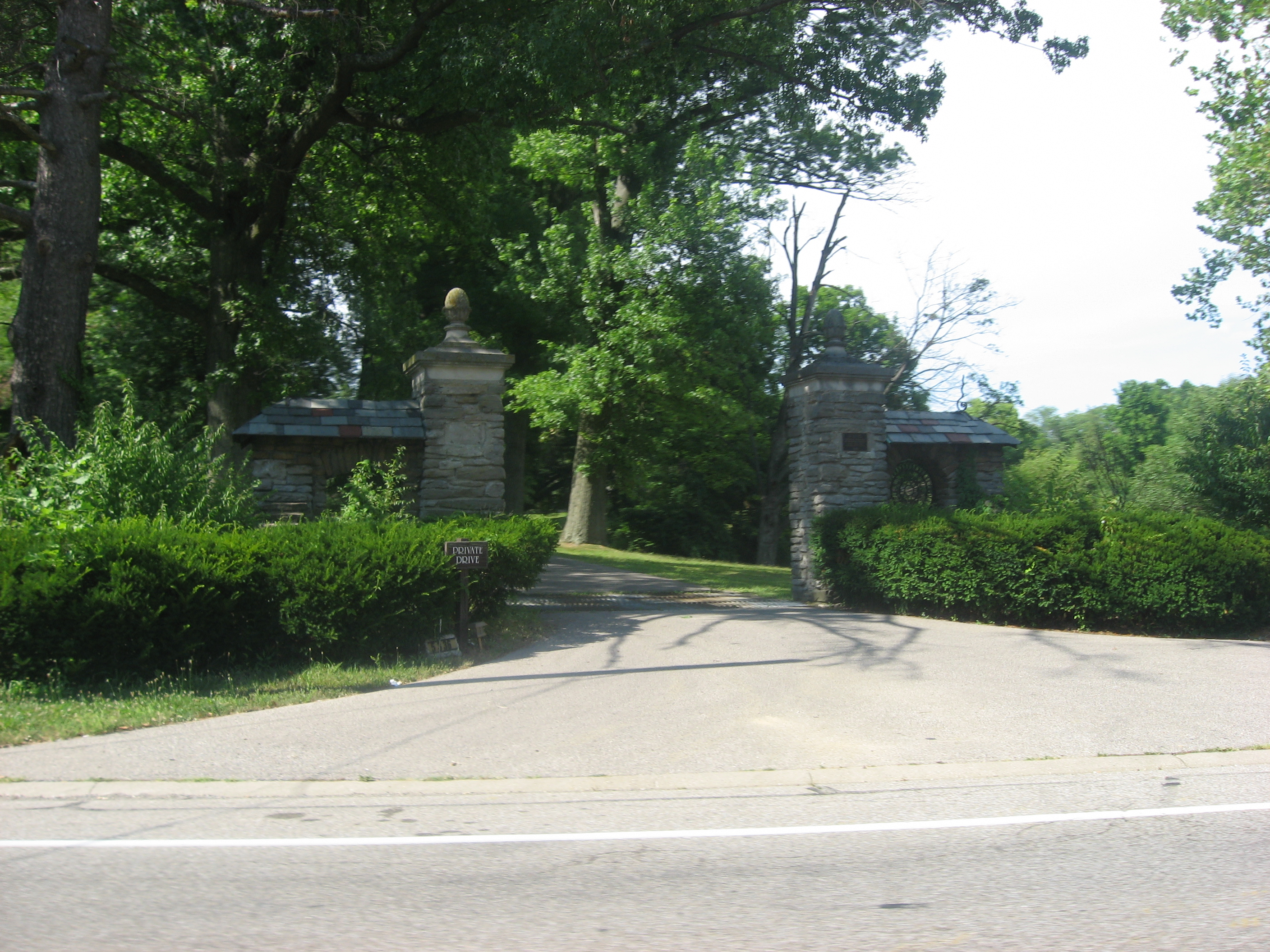 Gateway at the driveway entrance for Pine Meer, located at 5336 Cleves-Warsaw Pike west of Cincinnati in Green Township, Hamilton County, Ohio, United States. Built in 1926, Pine Meer is listed on the National Register of Historic Places.